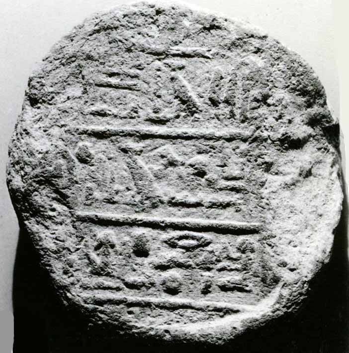 Cone, Penre, circular impression, Medjay, charioteer, Kharu